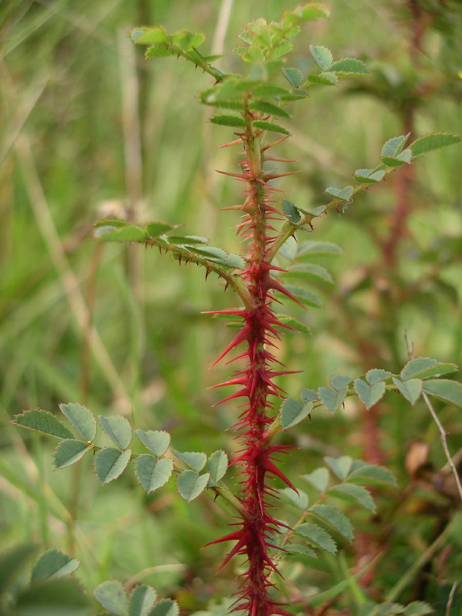 Young stem of Rosa spinosissima growing on Newborough Warren